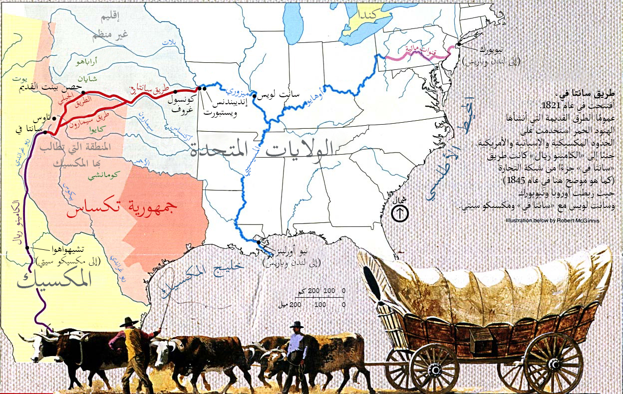 Map of Santa Fe Trail